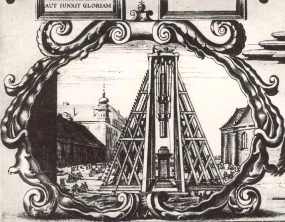 Construction of Sigismund Column in Warsaw (detail).